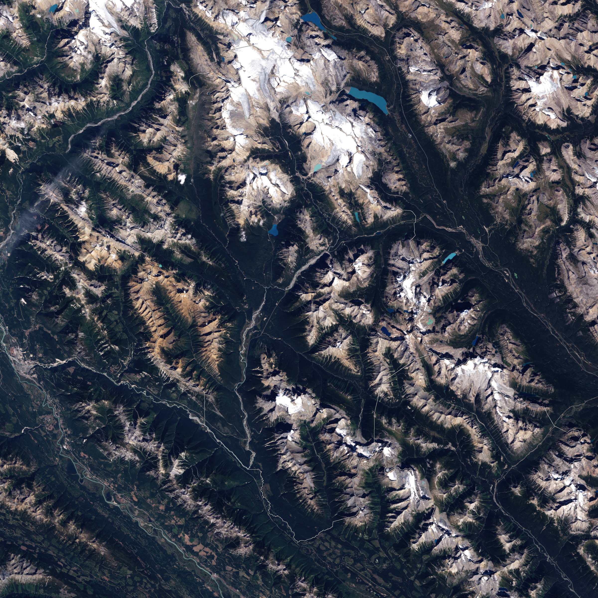 This is a true-colour image of the area in British Columbia’s Yoho National Park in which the Burgess Shale Formation is cropping out. This formation is renowned for its abundance of well-preserved Cambrian fossils. The formation is part of the bedrock of a landscape of naked ridges, forested slopes, meandering rivers, and jewel-toned lakes. The Sun is shining from the south-east, and the rugged mountains of the park cast shadows to the north-west. The fossil sites are located approximately in the center of the image on the mountains that are flanking the valley of the Kicking Horse RiverImage created using Landsat data provided by the United States Geological Survey. Instrument: Landsat 7 - ETM+.